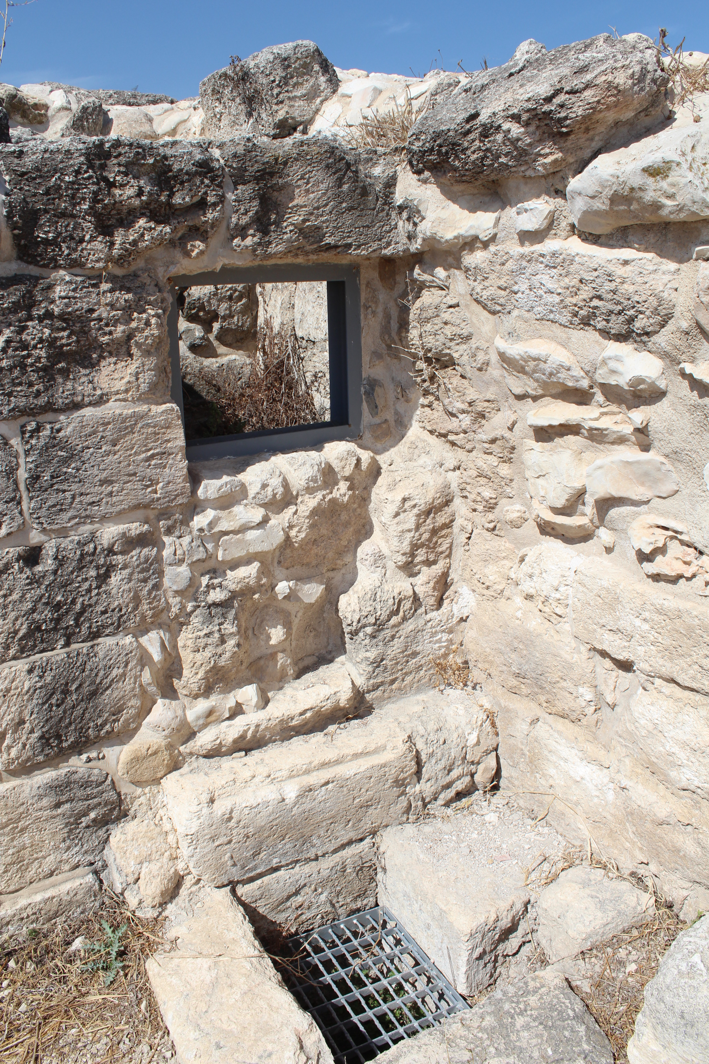 Crusader period remains - the smaller, northern tower,Tel Yokneam The site's ID in Wiki Loves Monuments photographic competition is 16-0240-100